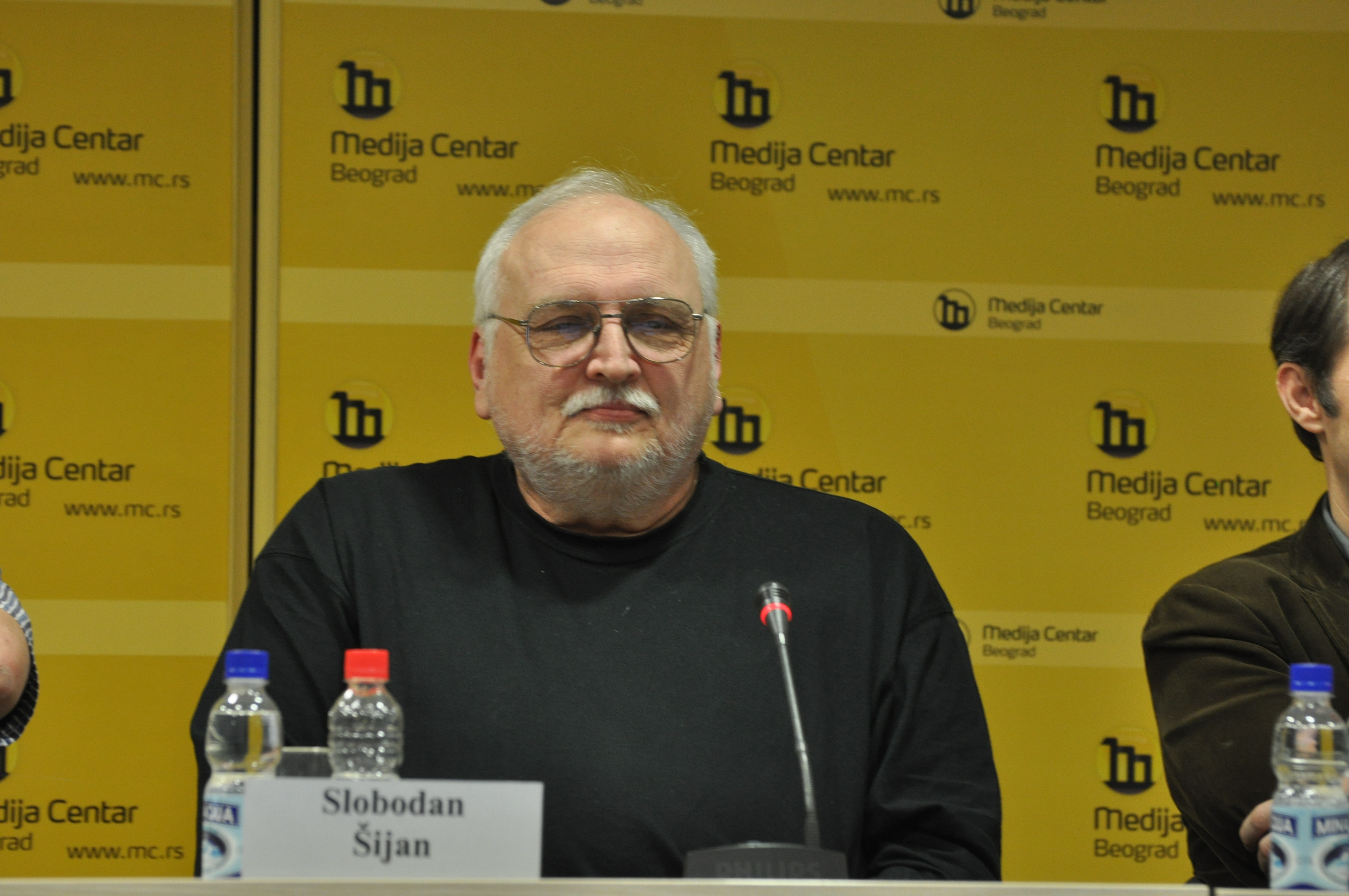 Slobodan Šijan